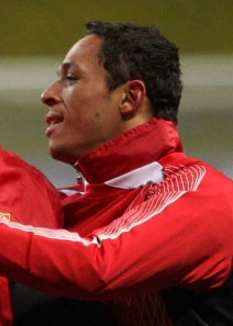 Brazilian winger Adriano Correia